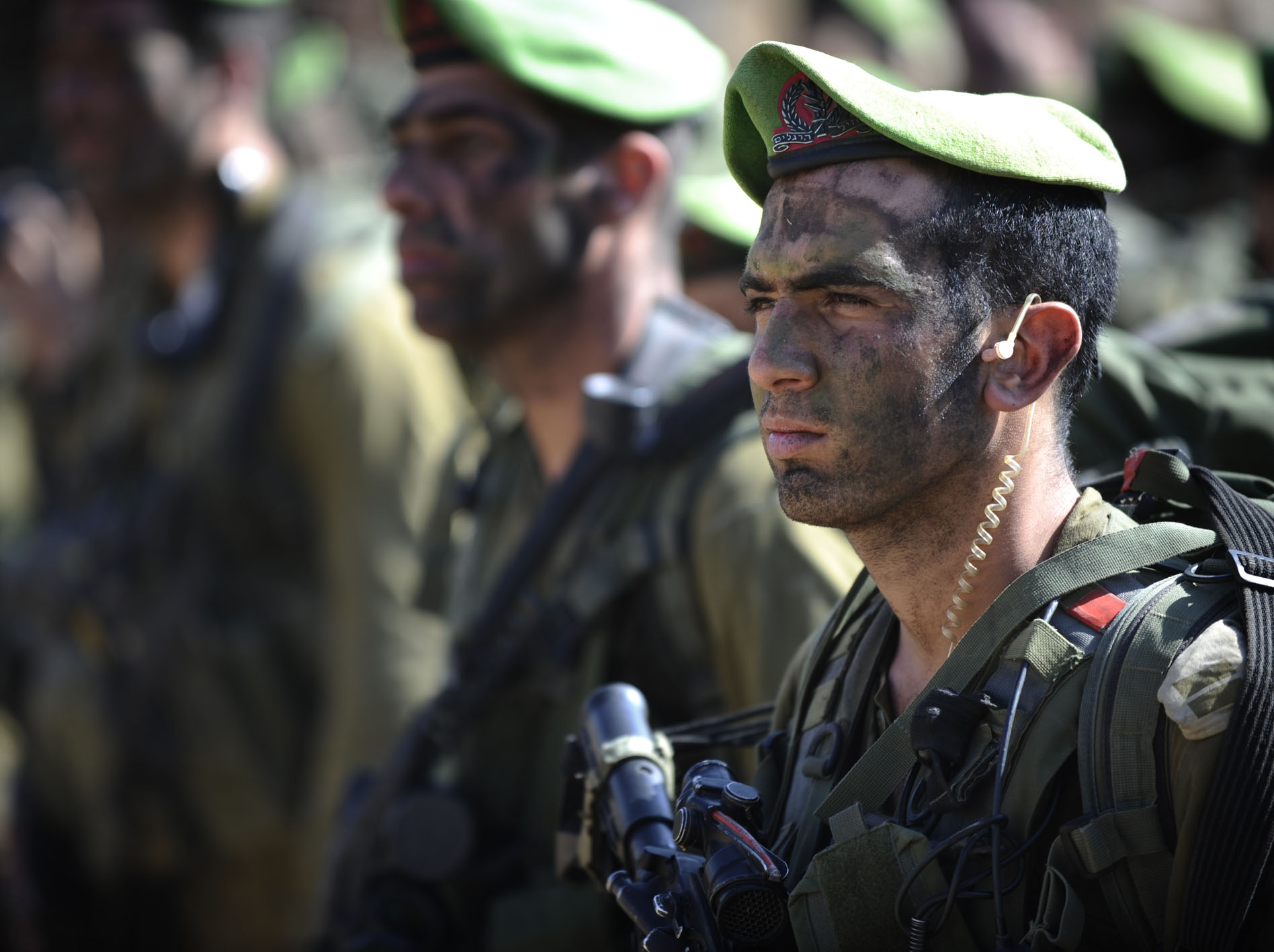 12.10.11 - Officers from the Nahal Infantry Brigade look into the future.